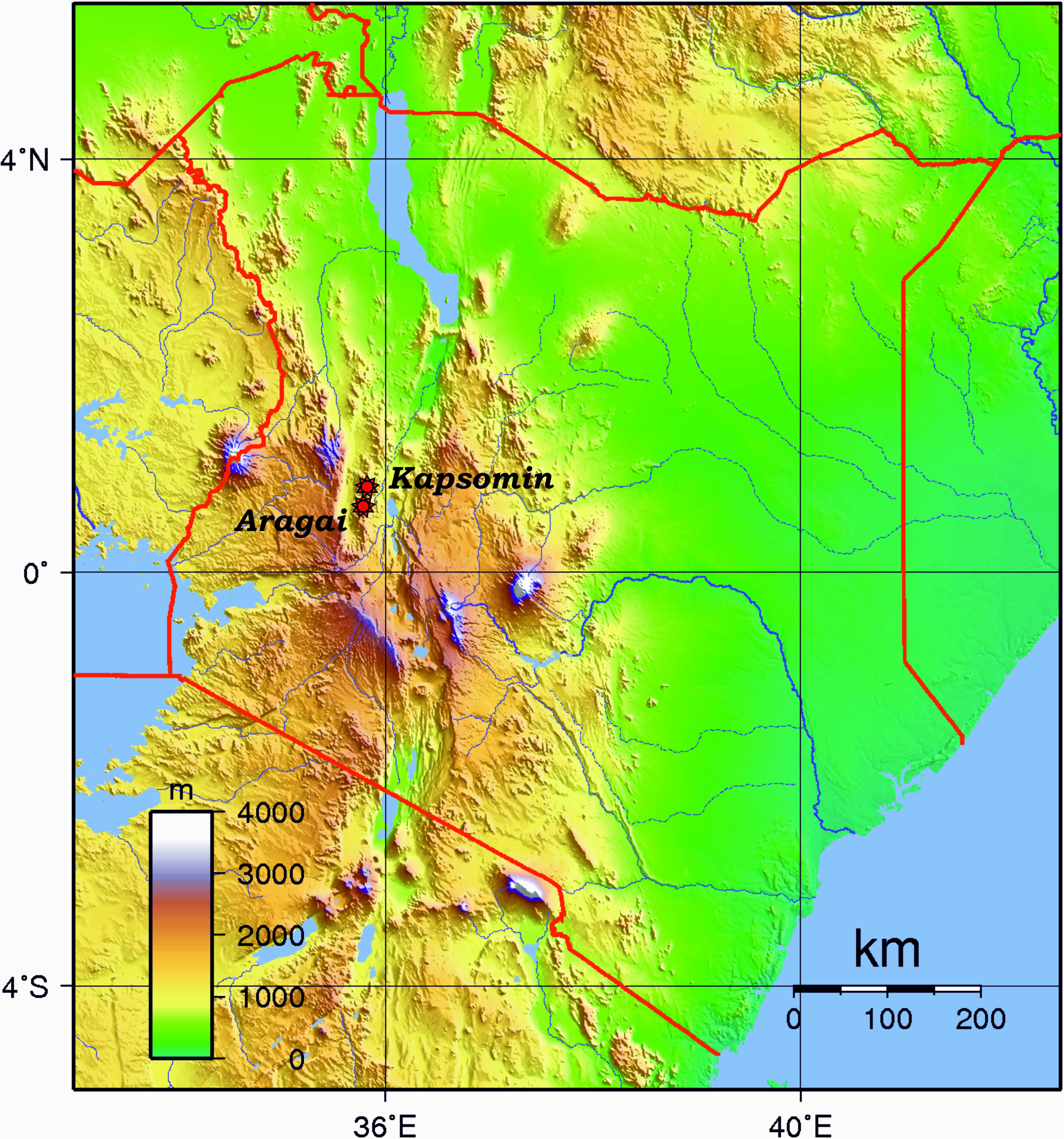 Orrorin, paleoanthropological localities, Tugen Hills, Kenya